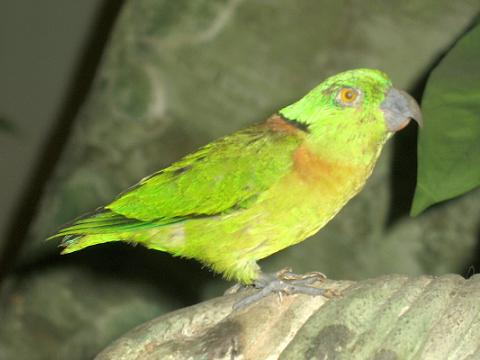 Black-collared Lovebird taxidermy in the American Museum of Natural History, New York